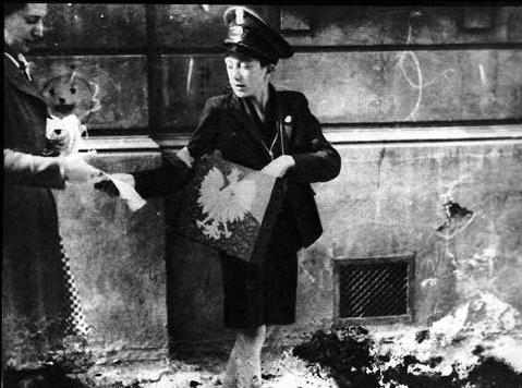 Warsaw Uprising: Szare Szeregi Scout Postal Service on Solec Street.